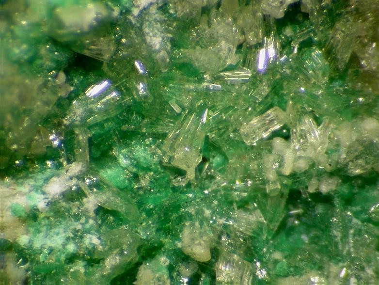 Sanrománite Locality: Santa Rosa Mine, Santa Rosa-Huantajaya District, Iquique Province, Tarapacá Region, Chile Colourless and greenish-yellow xls of Sanrománite Field of view 4 mm. Specimen and photo Leon Hupperichs.